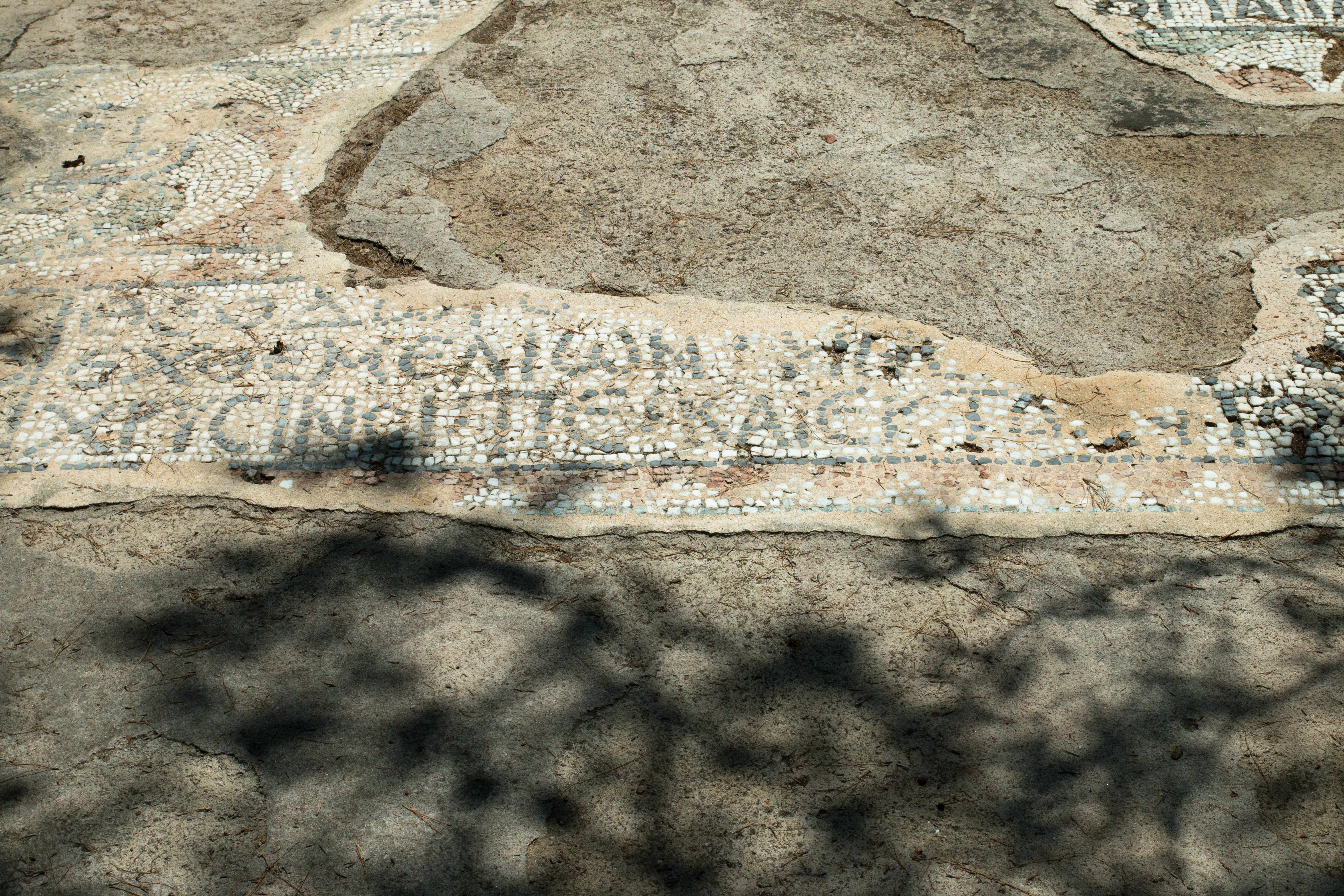 Late ancient mosaic with Greek inscriptions, near the former synagogue. Archaeological site at Kolona, Aegina.